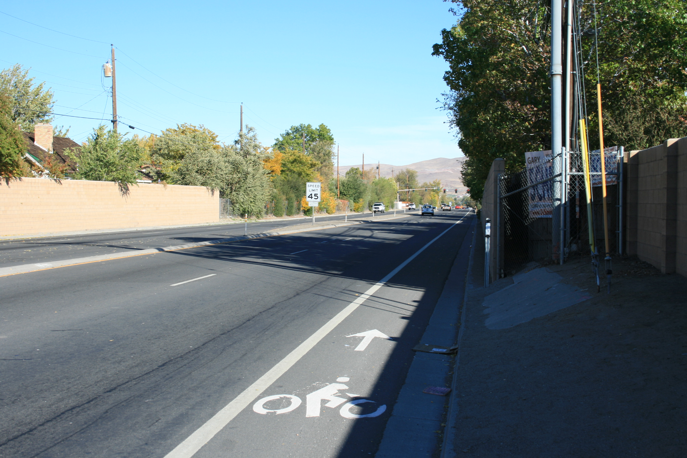 Looking east on North McCarran Boulevard (Nevada State Route 650) from Pyramid Way (Nevada State Route 445) in Sparks, Nevada.